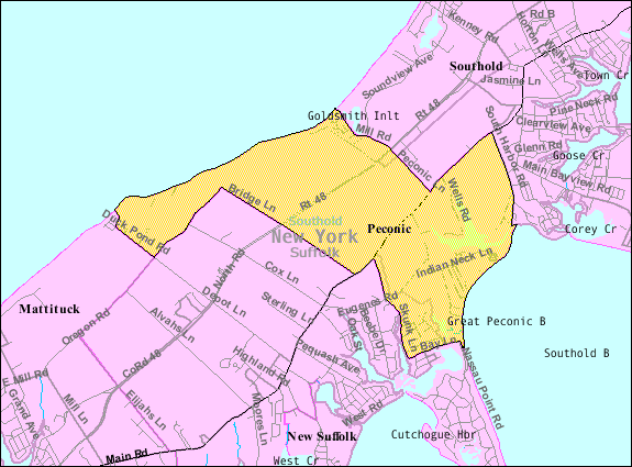 U.S. Census 2000 reference map for Peconic